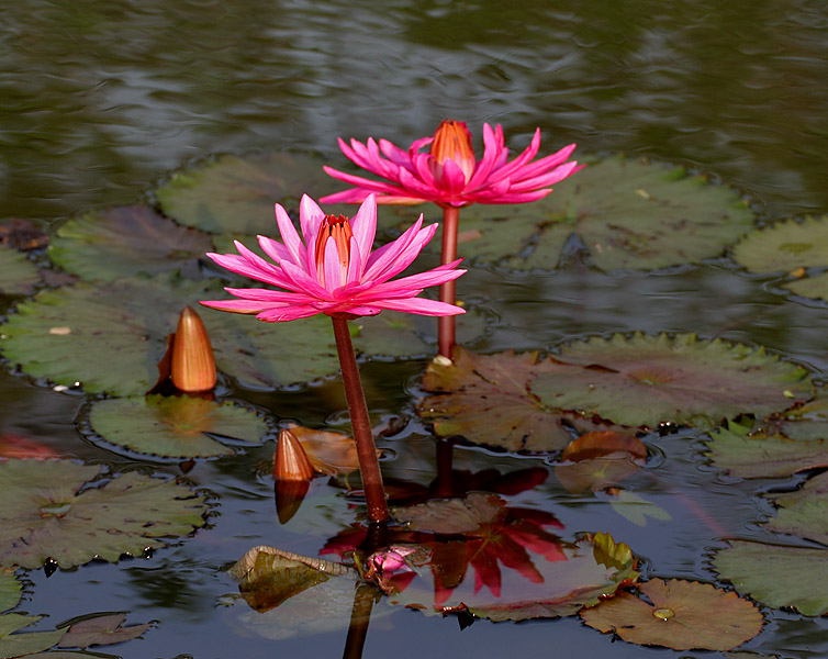 Nymphaea pubescens (sy. N. rubra), also known as the Indian Red Water Lily, Kanval, Koka, Lalakamal, Raktakamal, Allitamara, Allitamarai and Nyadale huvu, in Hyderabad, India.